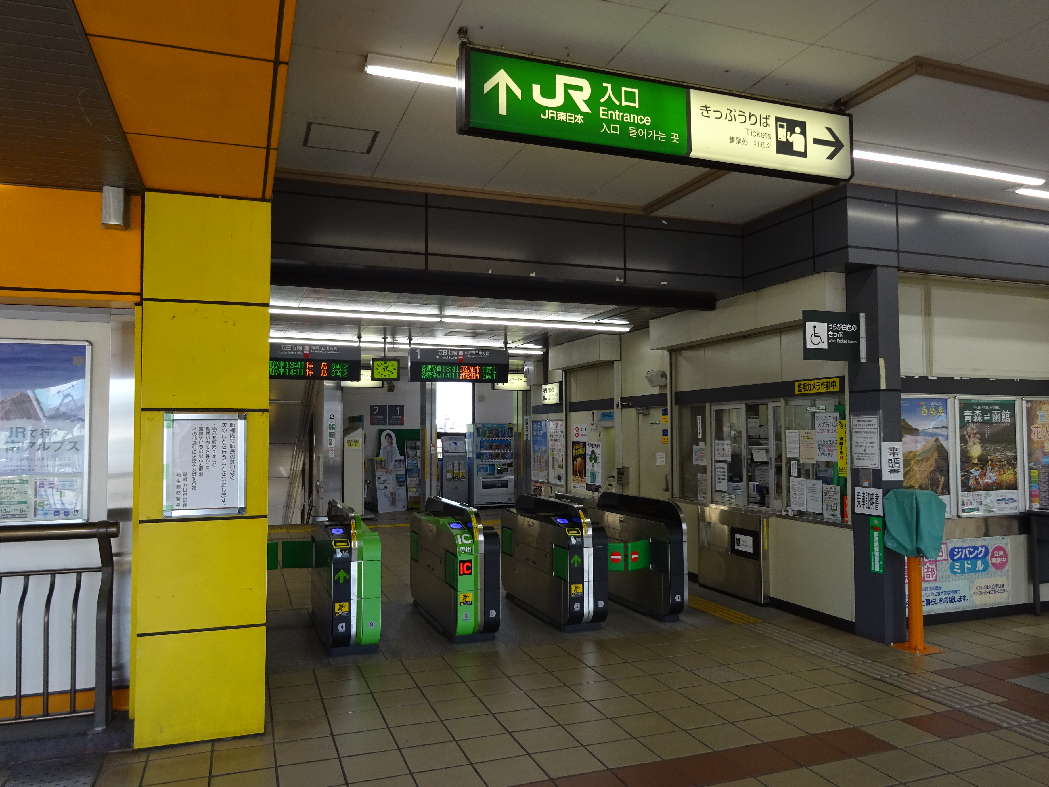 The ticket barriers at Akigawa Station on the Itsukaichi Line in Tokyo, Japan